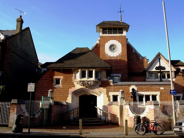 Battersea Reference Library in Altenburg Gardens A great resource for the community.